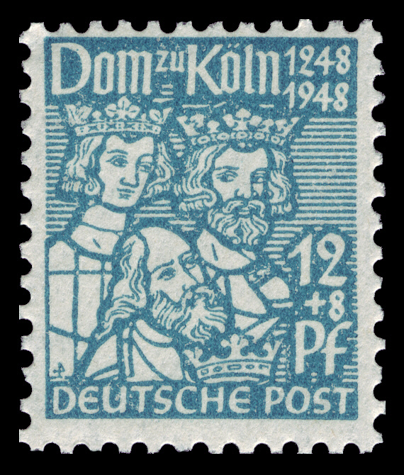 700 years of laying the foundation stone of the Cologne Cathedral (1248-1948) Graphics by Hussmann Ausgabepreis: 12+8 Pfennig First Day of Issue / Erstausgabetag: 15. August 1948 Michel-Katalog-Nr: 70 (Alliierte Besetzung - Bizone)